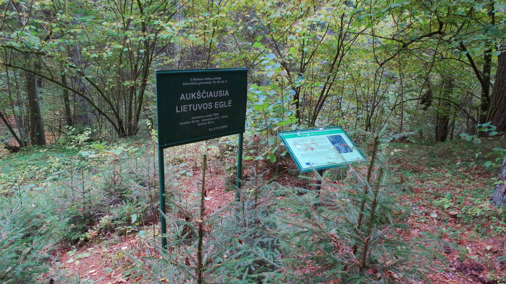 The highest spruce tree, information board, Noriūnai forest, Alytus district, Lithuania